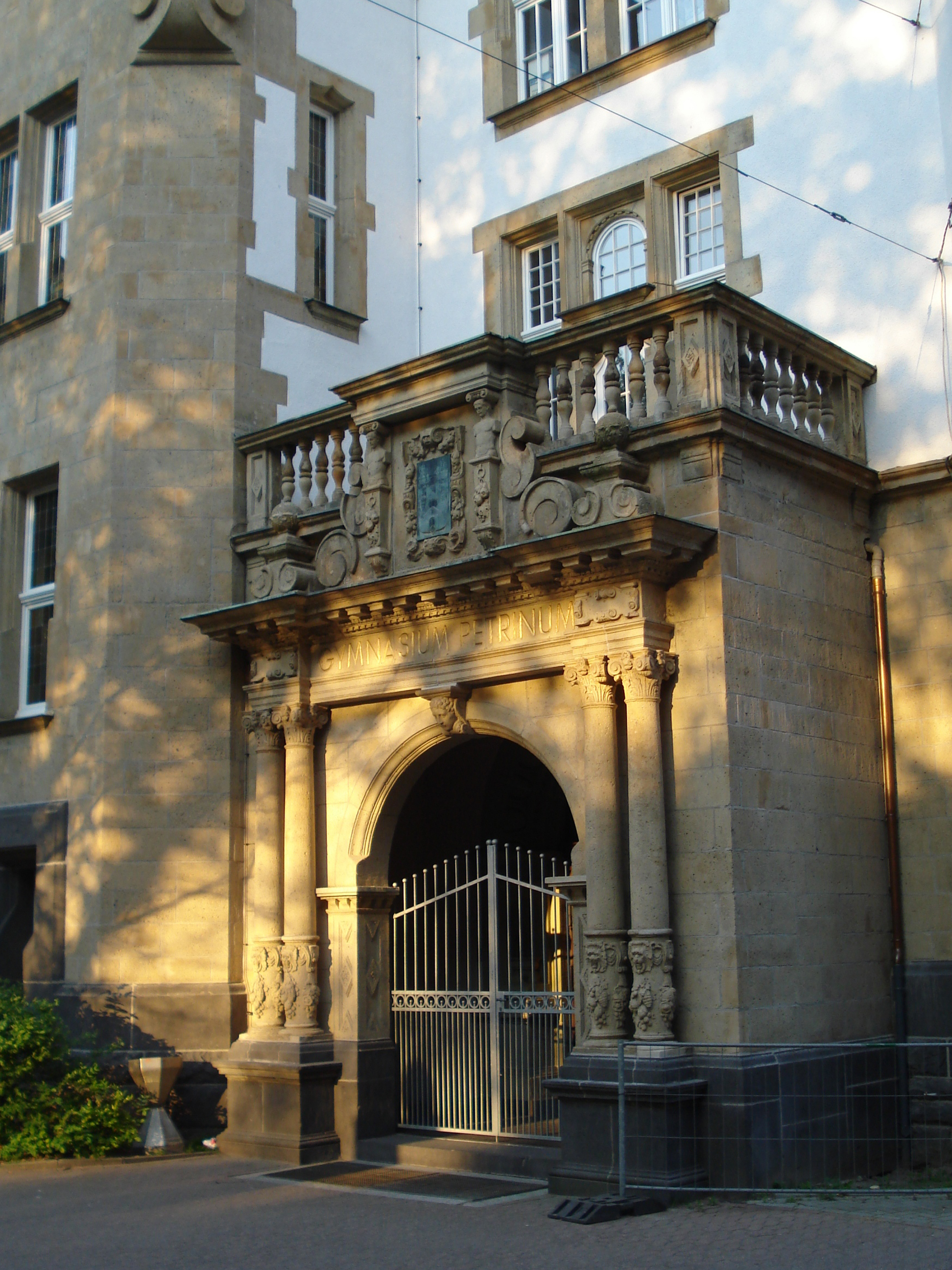 Entrance door of Gymnasium Petrinum (grammar school) in Recklinghausen, Germany.